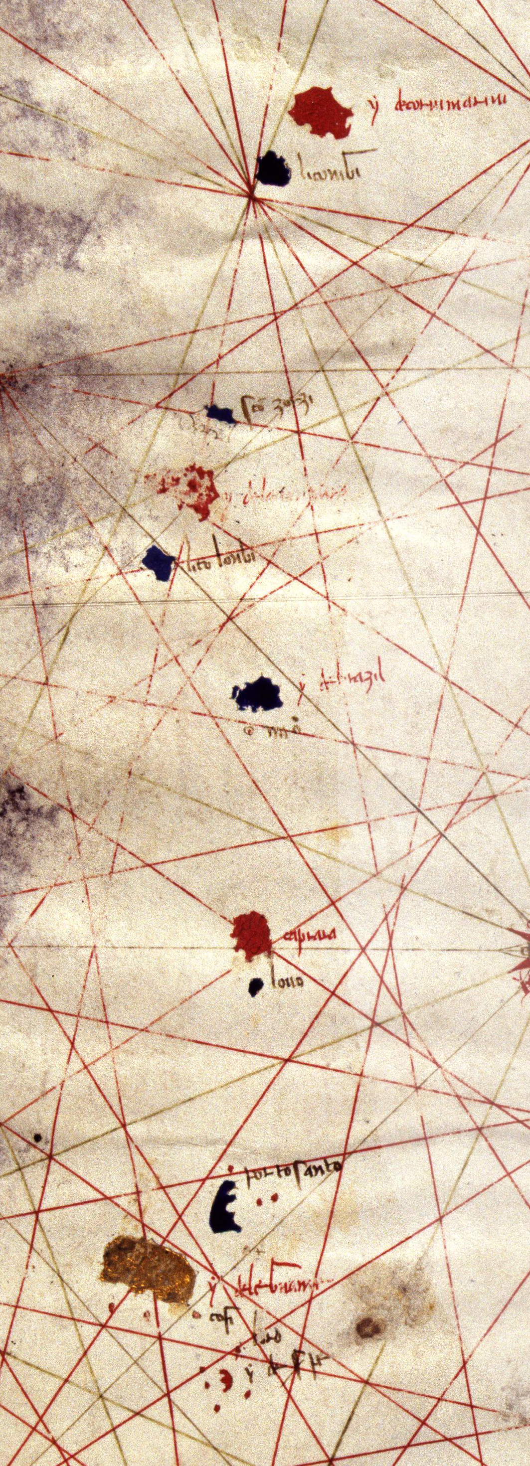 14th C. map of the Azores and Madeira islands, from the fourth sheet of the Corbitis Atlas, by an anonymous Venetian cartogapher, c.1385-1410. Currently held at Biblioteca Nazionale Marciana, Venice (Ms. It. VI 213). the Azores archipelago, is laid out vertically from north to south, and named as follows: y de corvi marini (Corvo), li conigi (Flores), sancto zorzi (São Jorge), y la ventura (Faial), li colonbi (Pico), y de brazil (Terceira), caprara (São Miguel) and lovo (Santa Maria). the Madeira archipelago, with the names y de legname (Madeira), porto santo (Porto Santo), ydesertas (Desertas). Further south are the y. salvaze (Savage Islands).